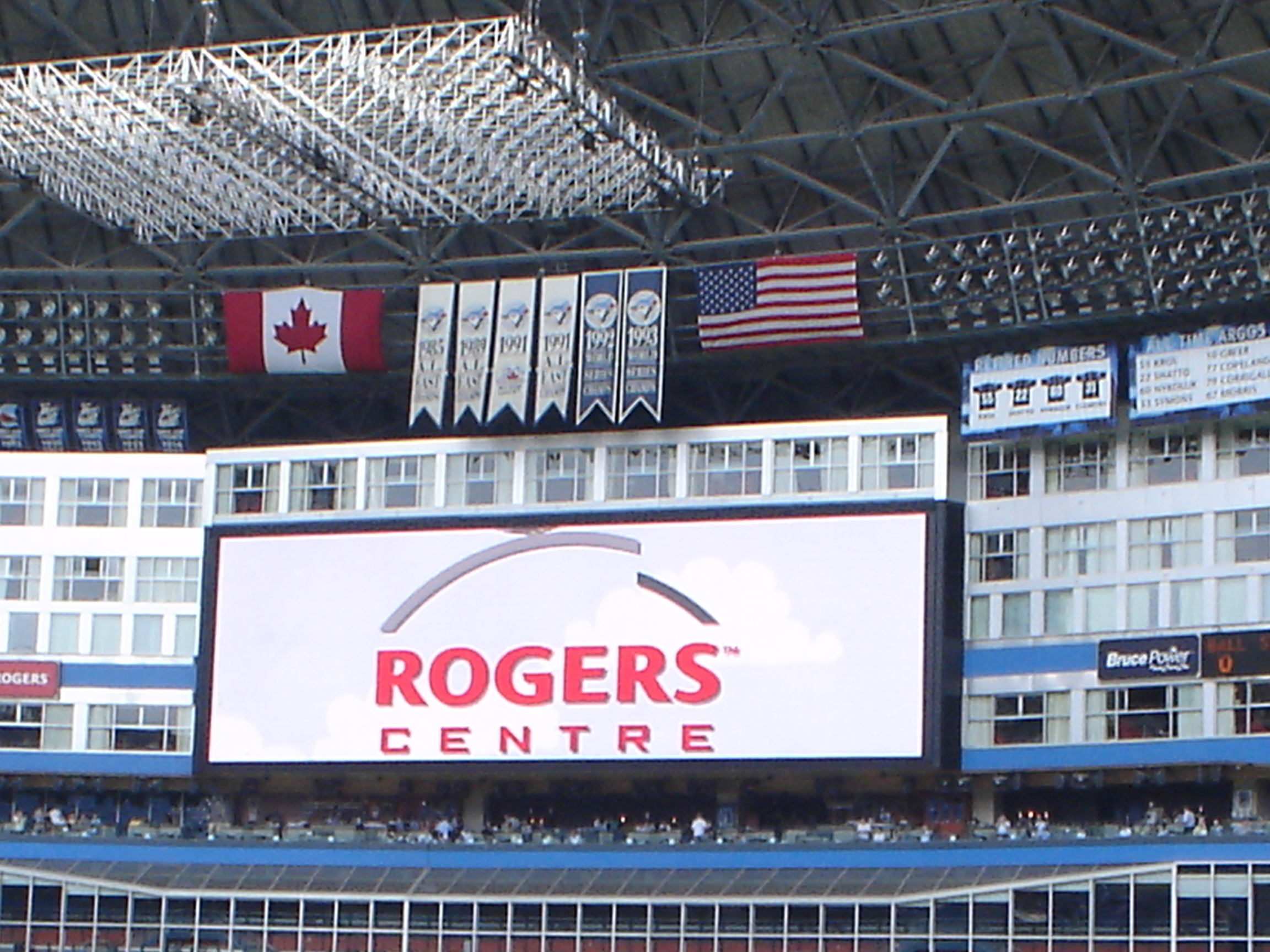 Main video board at the Rogers Centre, showing the stadium logo. Also seen are the World Series banners the Blue Jays won in 1992-93, and the banner showing the Toronto Argonauts championships. 03:34, 12 October 2007 . . Oaktree b . . 2,304×1,728 (1.52 MB)